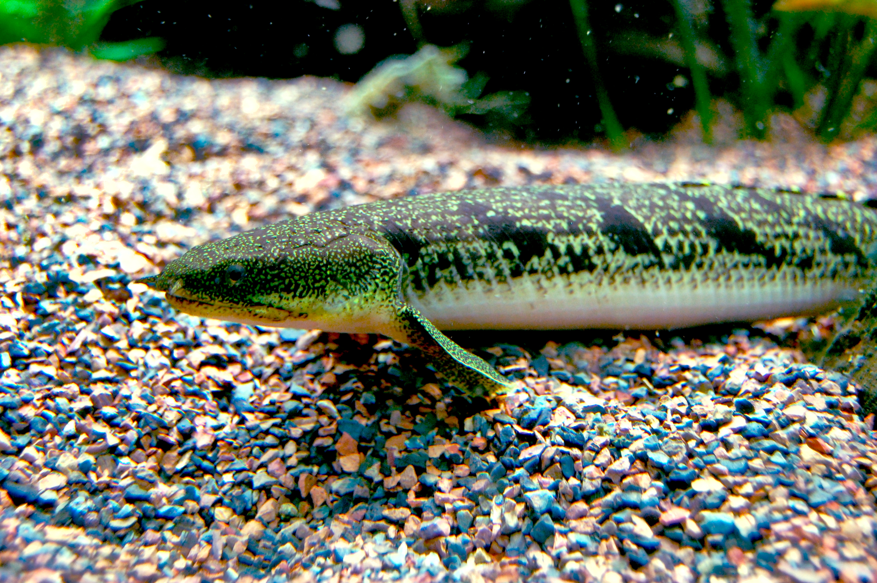 Barred bichir (Polypterus delhezi) at the New England Aquarium, Boston MA. (Initially mislabelled, hence the file name.)